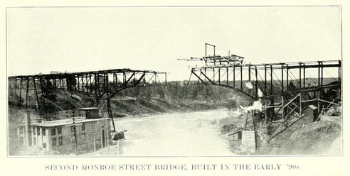 The second Monroe Street bridge, built in the 1890's. Spokane, WA